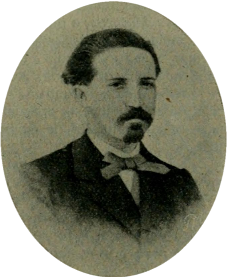 António de Magalhães Barros de Araújo Queirós (1882-1961)